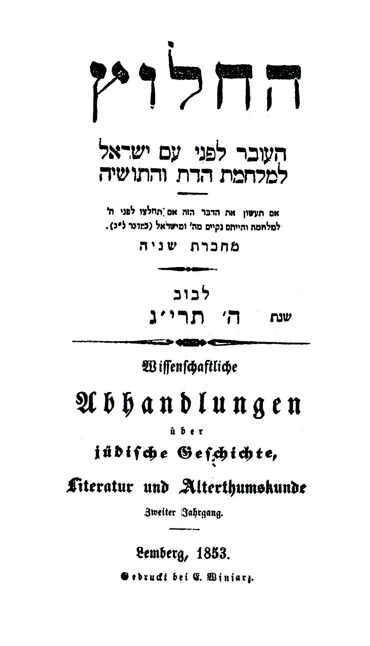 "He-Halutz", Hebrew European newspaper printed 1852-1889 (he:החלוץ (כתב עת)